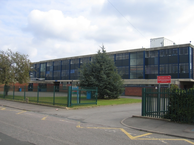 Sir Thomas Rich's School, Gloucester. Founded in 1668 as the Blue Coat Hospital for boys from the will of Sir Thomas Rich, it changed name to Sir Thomas Rich's in 1882. The school moved to this current site in Elmbridge in 1964 from its previous site in Barton Street ( 61708 )and today has been awarded Beacon school status. For more information